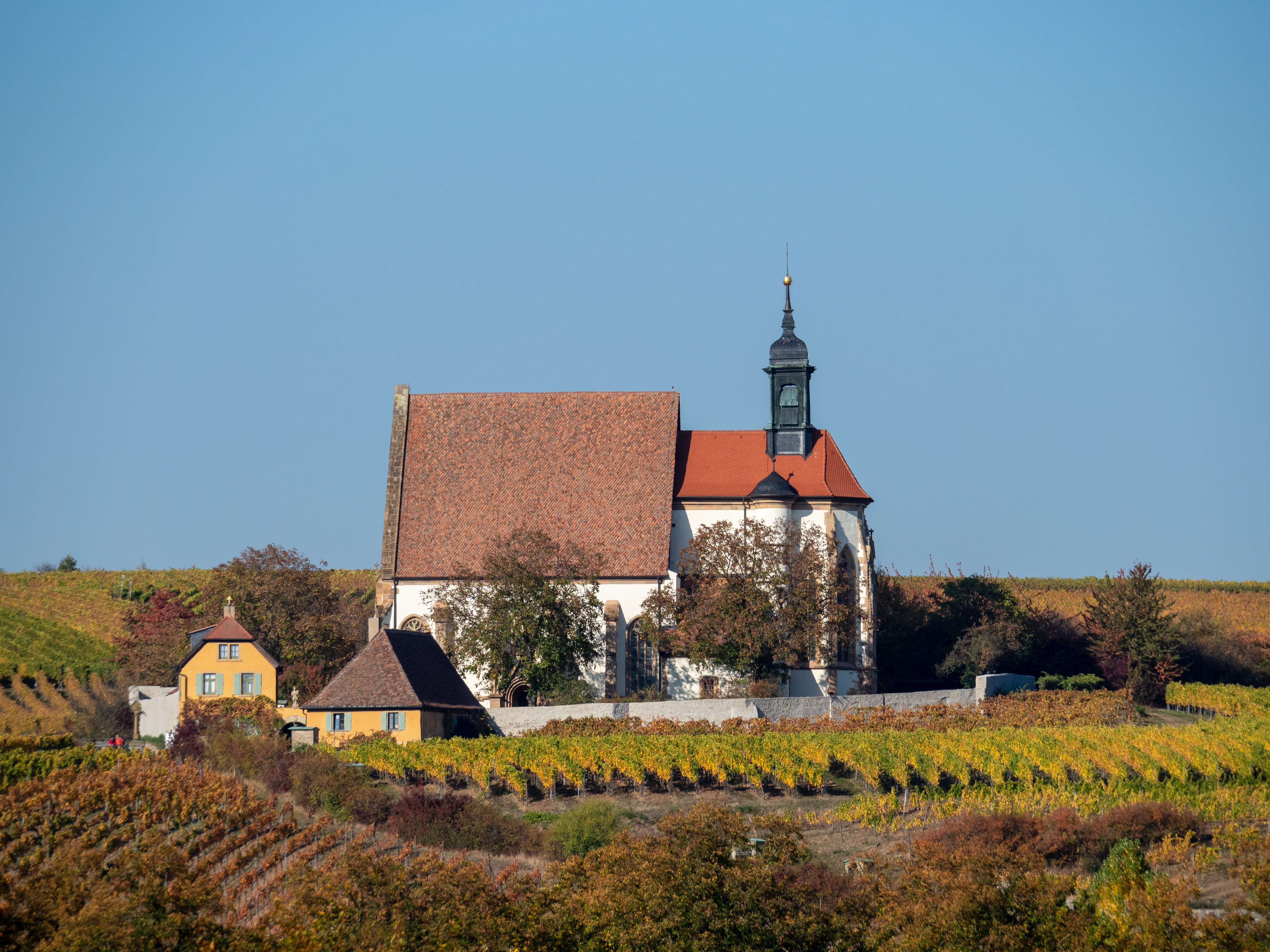 Pilgrimage church Maria im Weingarten near Volkach